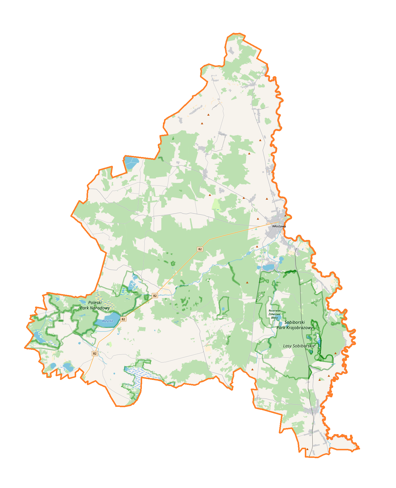 Location map